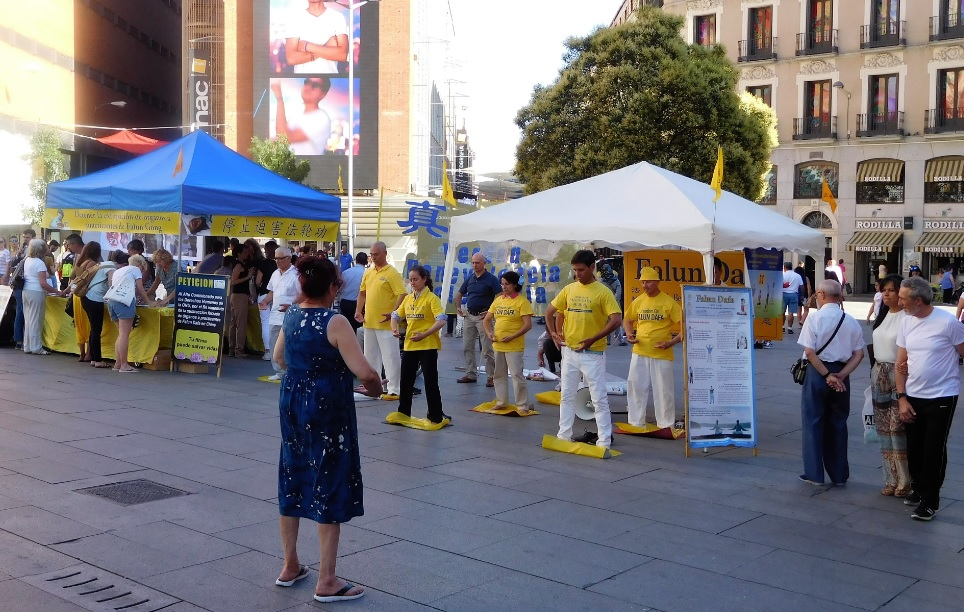 Falun Gong (Falun Dafa) practitioners gather in Madrid to held activities to ask for an end to the persecution of this spiritual discipline in China by the communist regime, which includes organ harvesting.